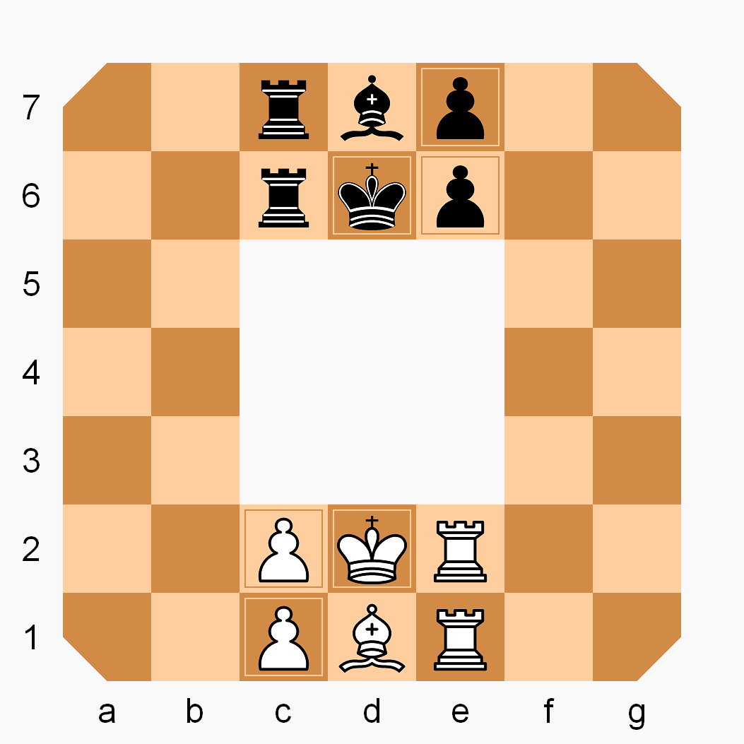 Using the great free-use icons provided by User:Dbenbenn (David Benbennick); all done in MSPAINT.